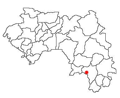 Macenta, Guinea Location Map; created with the GIMP. Made by User:Acntx.